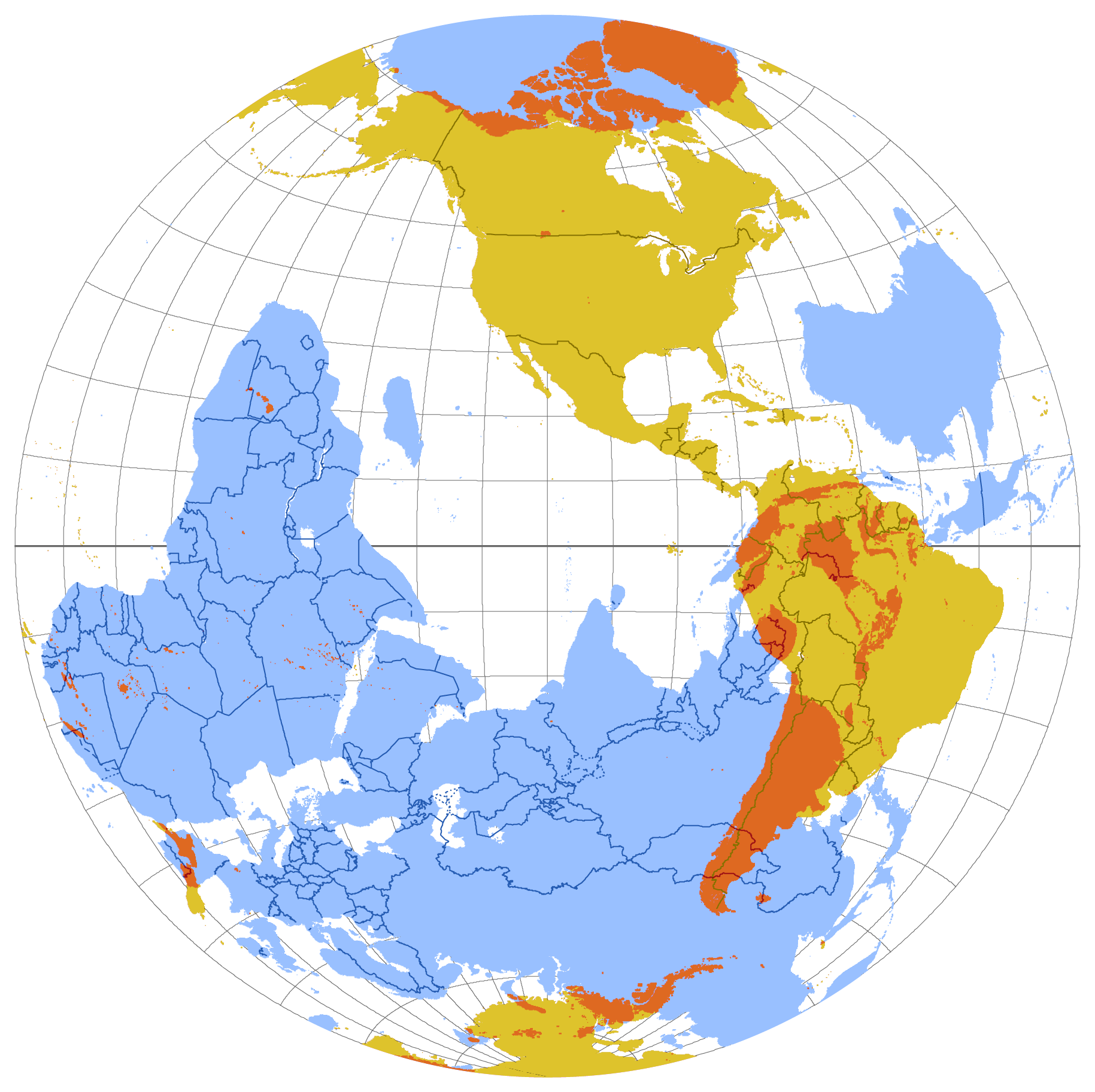 antipodes, seen from the western hemisphere